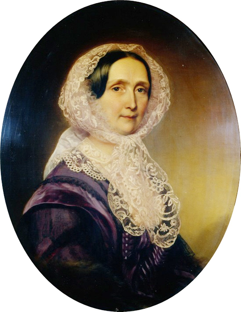 mother of Franz Joseph I of Austria